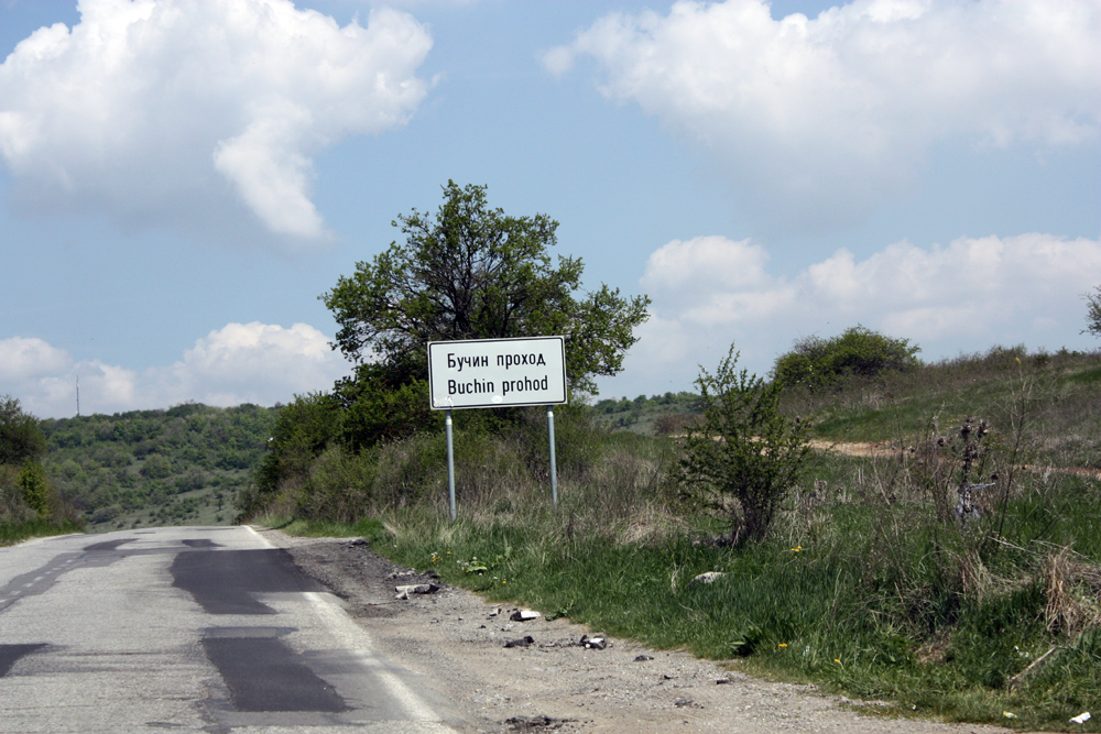 Lom Road (Lomsko Shosse) at Buchin prohod